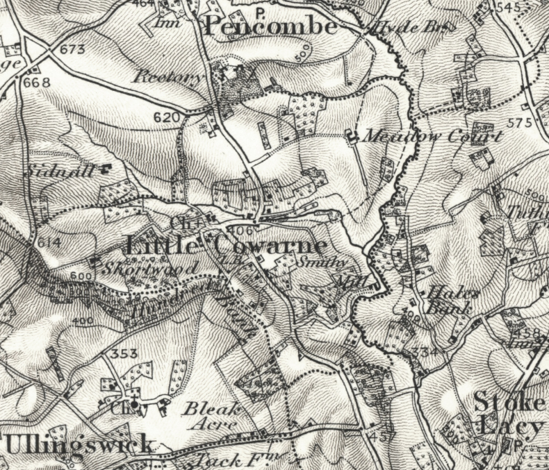 1898 Ordnance Survey map detail of Little Cowarne, Herefordshire, England. OS Hereford (Hills) sheet 198 - 1898. Reproduced with the permission of the National Library of Scotland.[1].